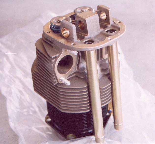 Air cooled cylinder from a Continental C-85 aviation engine. The engine develops a maximum of 85 bhp and is found on older small light aircraft such as the Cessna 140. The engine has a displacement of 188 cu in. The cylinder is being prepared for fitting to the engine of N140LB, a Cessna 140 built in 1946. Photograph: Dylan Smith (uploader)